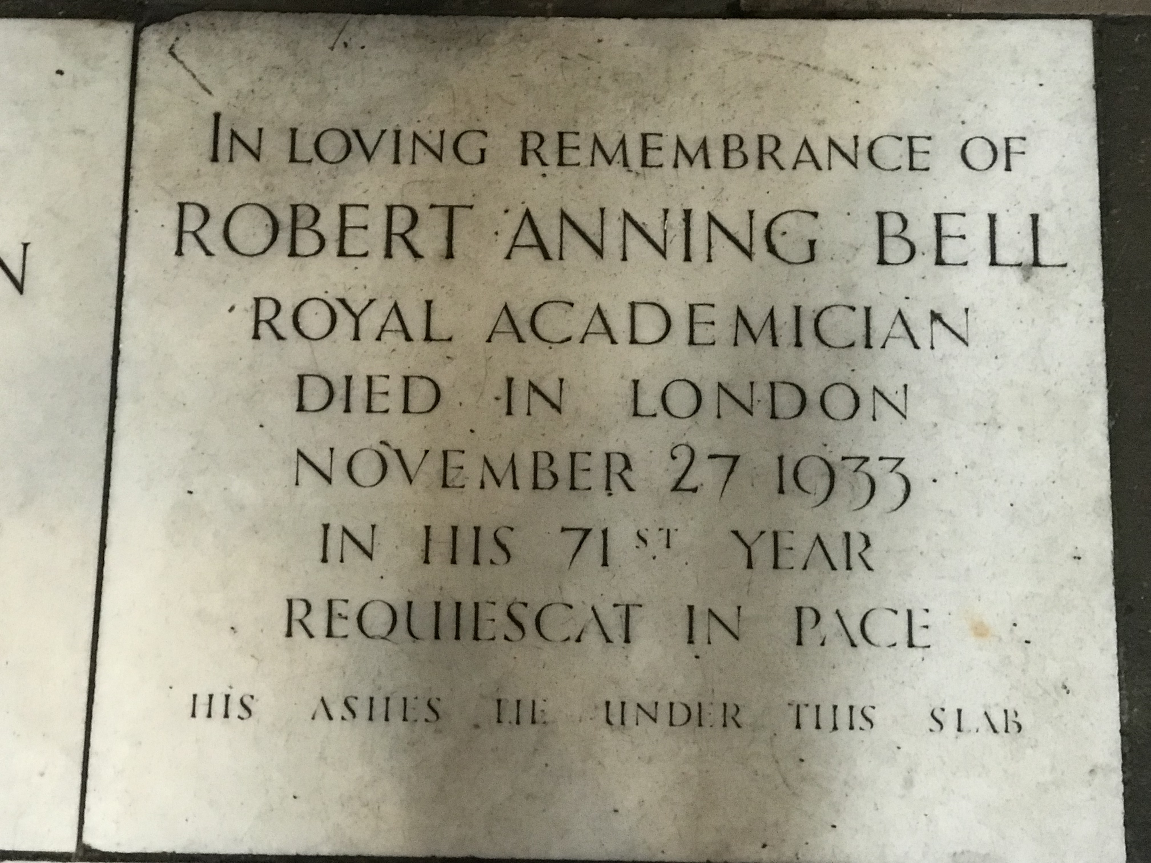 A memorial to Robert Anning Bell in St James's Church, Piccadilly.